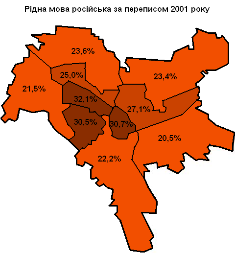 Russian as native language in Kyiv' raions according to 2001 census